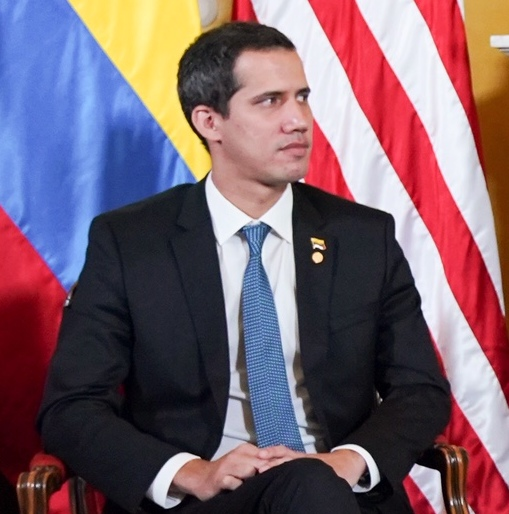 Vice President Mike Pence meets with Colombian President Ivan Duque and Venezuelan President Juan Guaido to discuss the humanitarian situation in Venezuela Monday, Feb. 25, 2019, at the Foreign Ministry in Bogota, Colombia. (Official White House Photo by D. Myles Cullen)